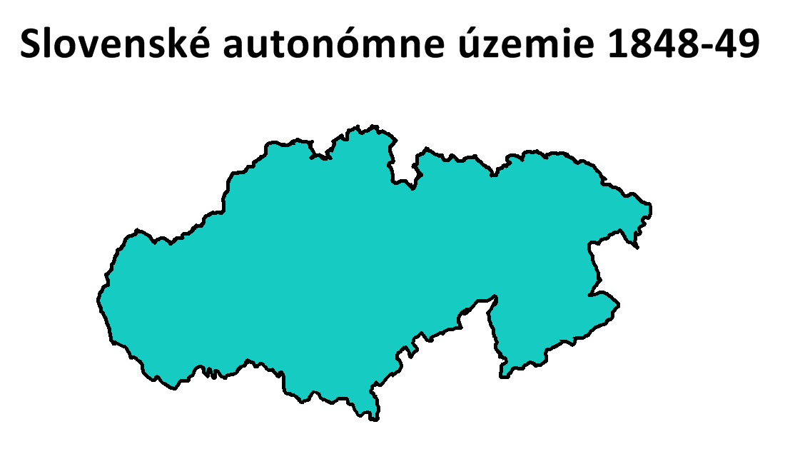 Outline of Autonomous Slovakia created during the revolutions of 1848-1849 as a part of Austria-Hungary. It existed between 1848-09-18 and 1849-11-21. The map copies the shapes of administrative units - "župa", which were a part of Autonomous Slovakia.